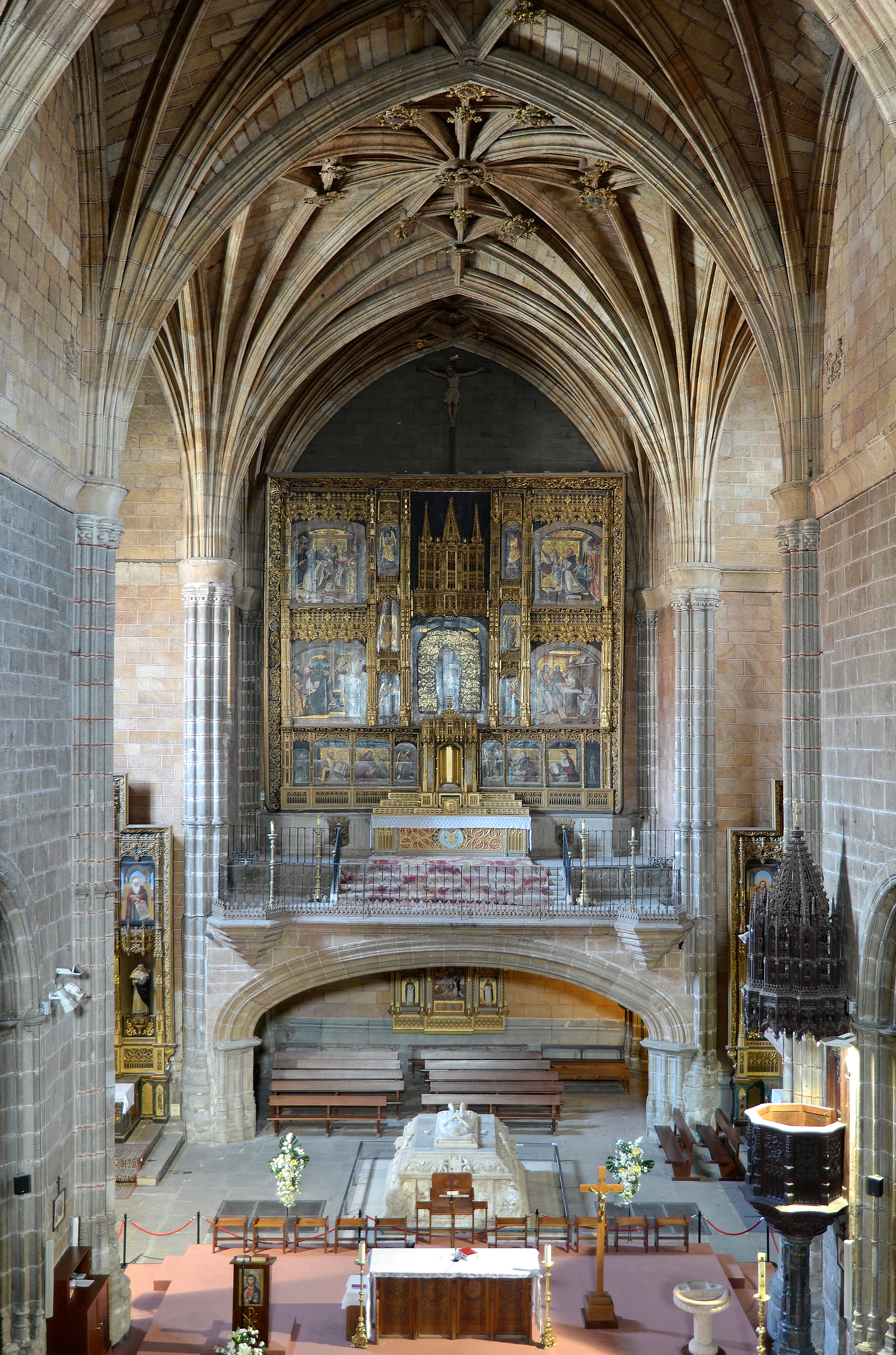 Choir of the church with the tomb of John, Prince of Asturias by Domenico Fancelli and altarpiece (by Pedro Berruguete) - Real Monasterio de Santo Tomás in Ávila, Spain